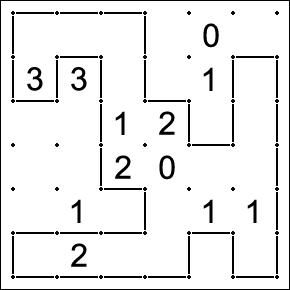 Answer to the sample puzzle in the Slither Link article.